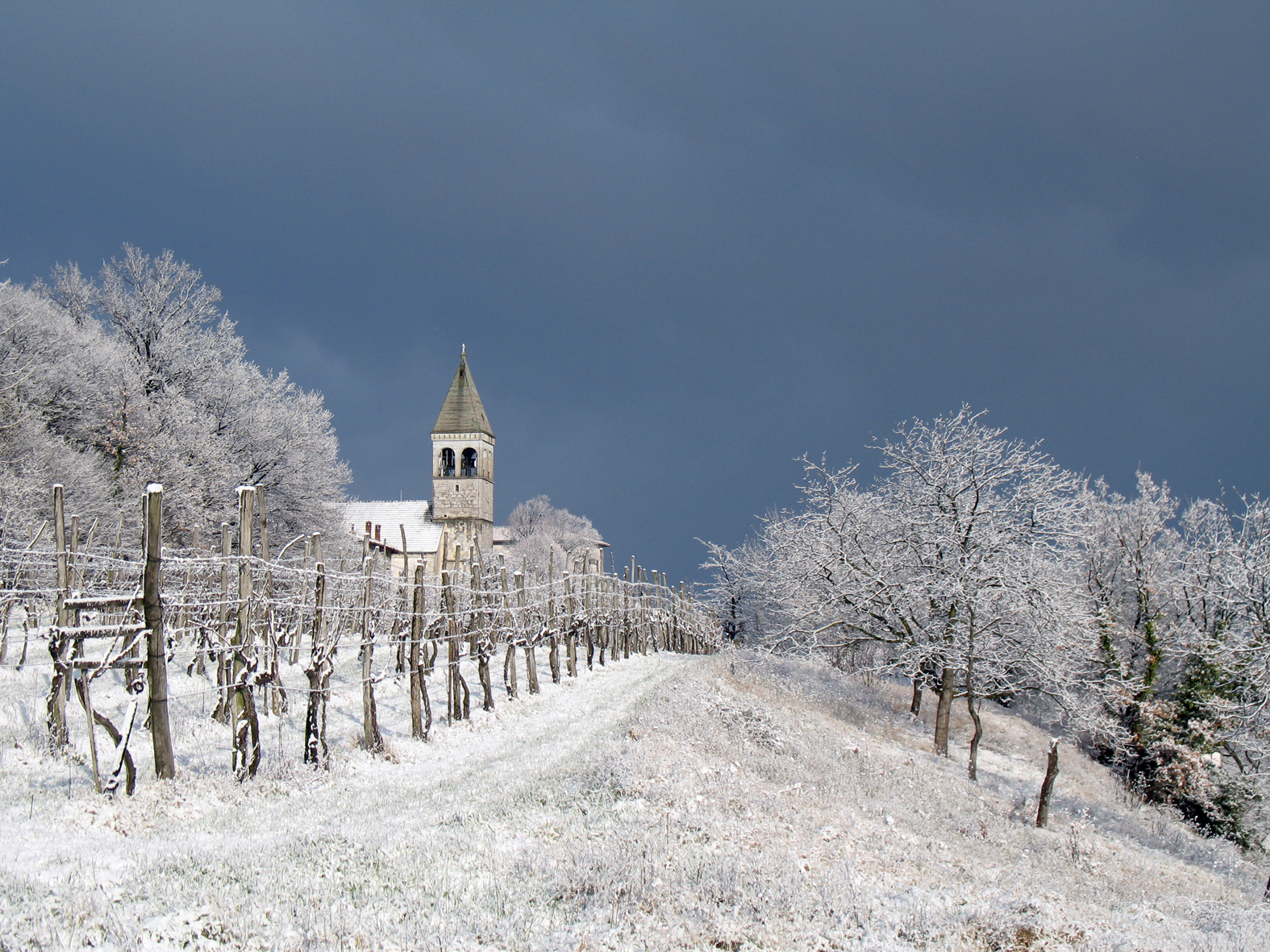 Tomaj church in white